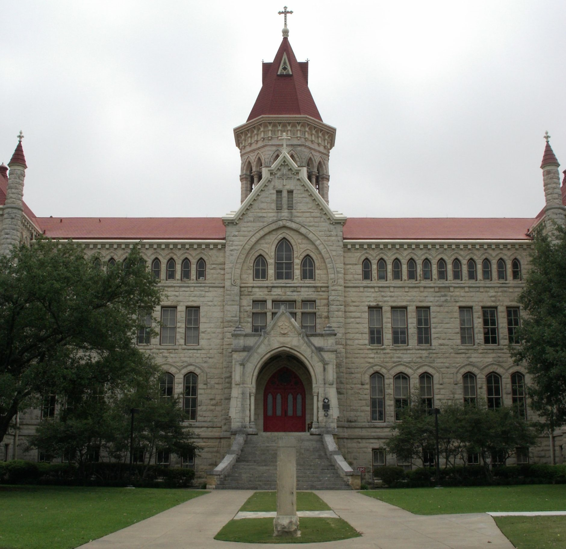 The north side of the main building at St. Edward's University.